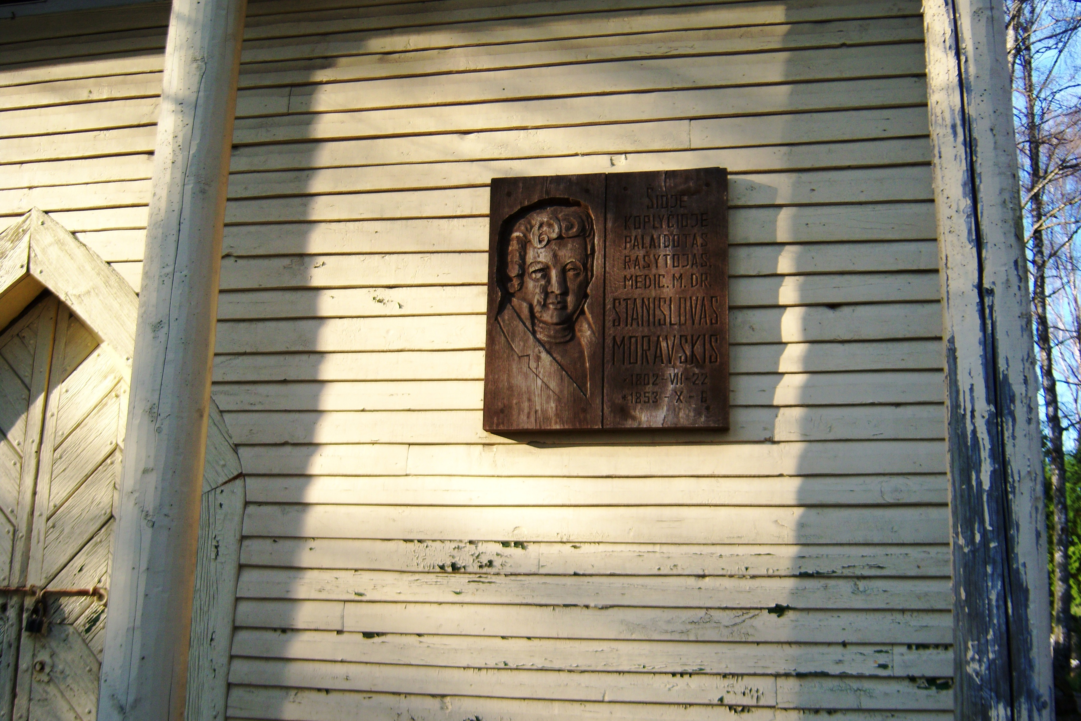 Memorial plaque, Nemajūnai, Birštonas municipality, Lithuania